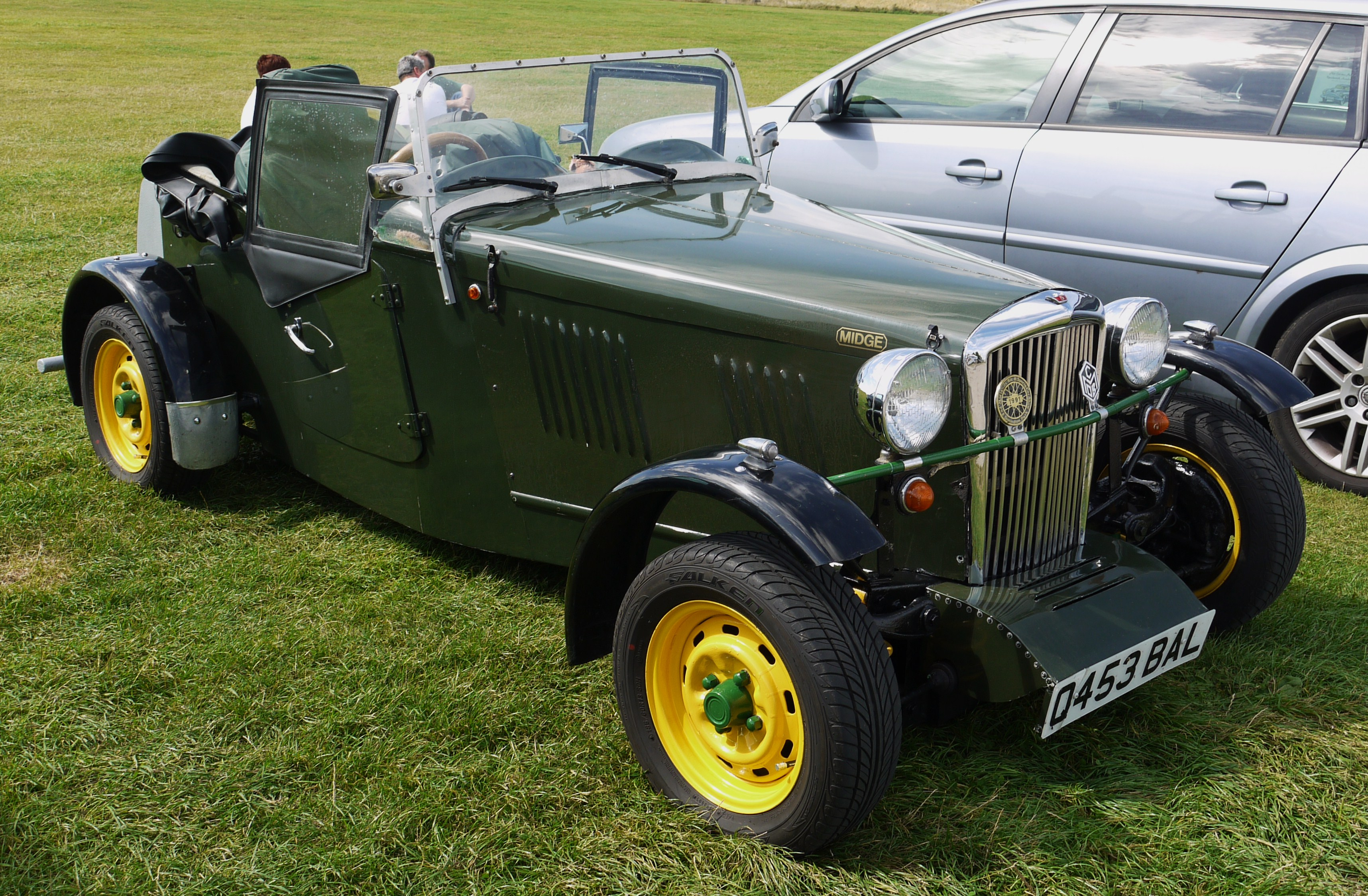 JC Convertible Midge